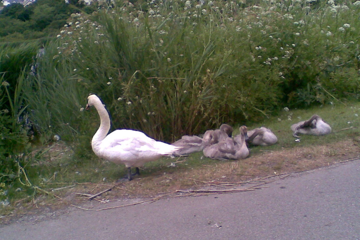 A family of swans, enjoying the sun, on the side of Swanpool, near Falmouth, Cornwall.